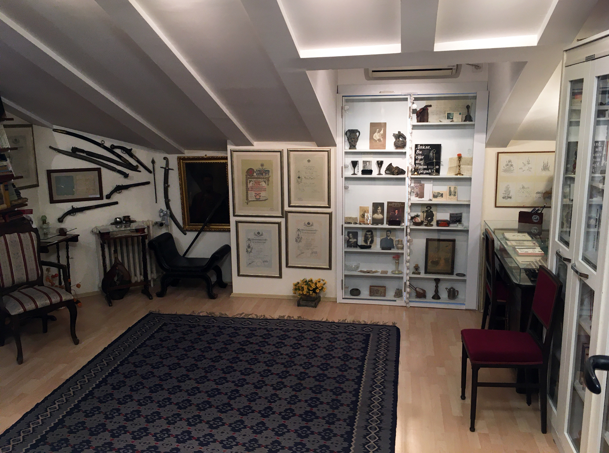 Weapons from the Serbian revolution and legacy of writer Milovan Danojlić, Adligat, Serbia